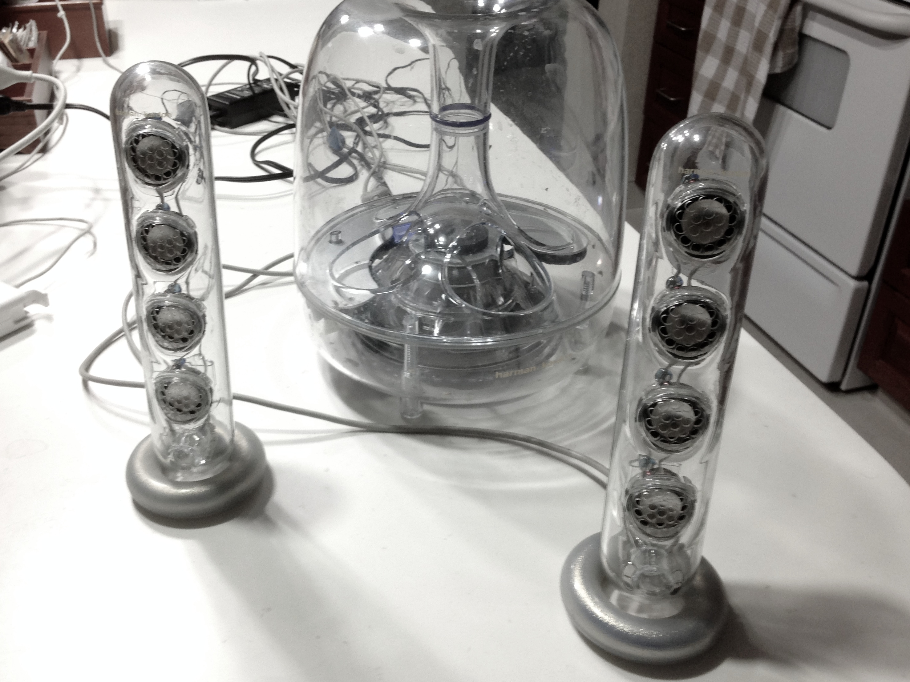 On the rainy drive through Washington State, the plastic box holding my Harmon Kardon Sound Sticks was breached (the top came off), and they were sitting in 2 inches of water. When I first tried them, the amp powered up but I got no sound. But after sitting a month, they came to life... and now THEY ARE ROCKING THE TOWER!